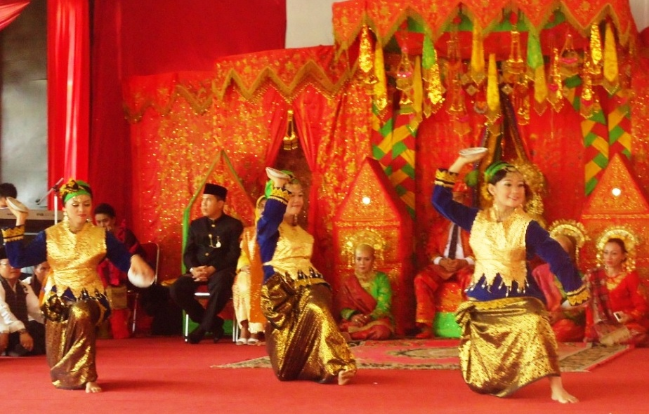 A performance of Tari Piring (Plate Dance), at TMII, Jakarta, Indonesia, May 2011